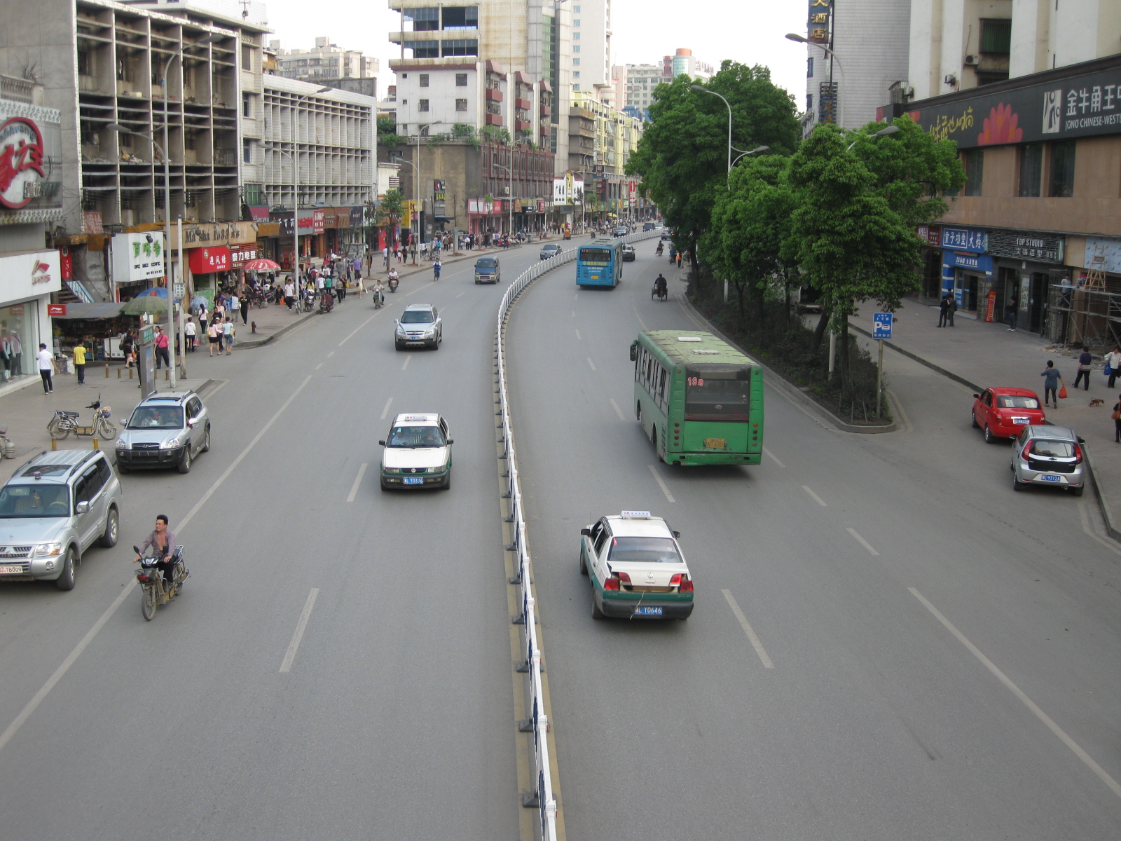 South Guoqing Road, Chenzhou